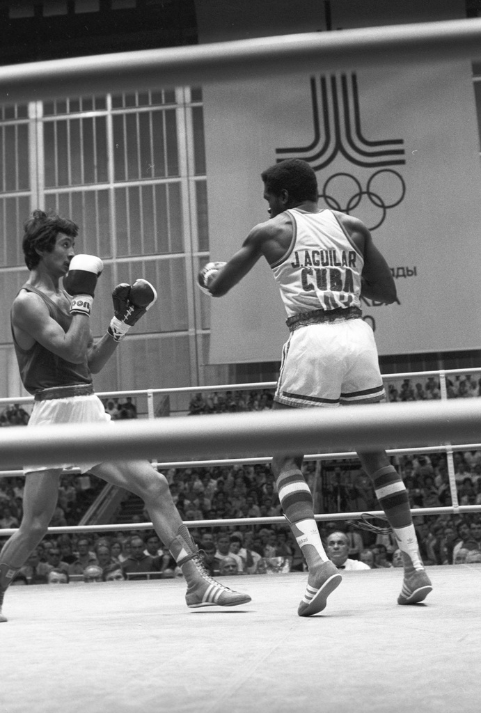 “Boxers Serik Konakbayev and Jose Aguilar”. Silver and bronze medalists of the 1980 Olympiad Serik Konakbayev (USSR, left) and Jose Aguilar (Cuba). Boxing match (light welterweight division). XXII Summer Olympic Games. "Olympiysky" sports complex.